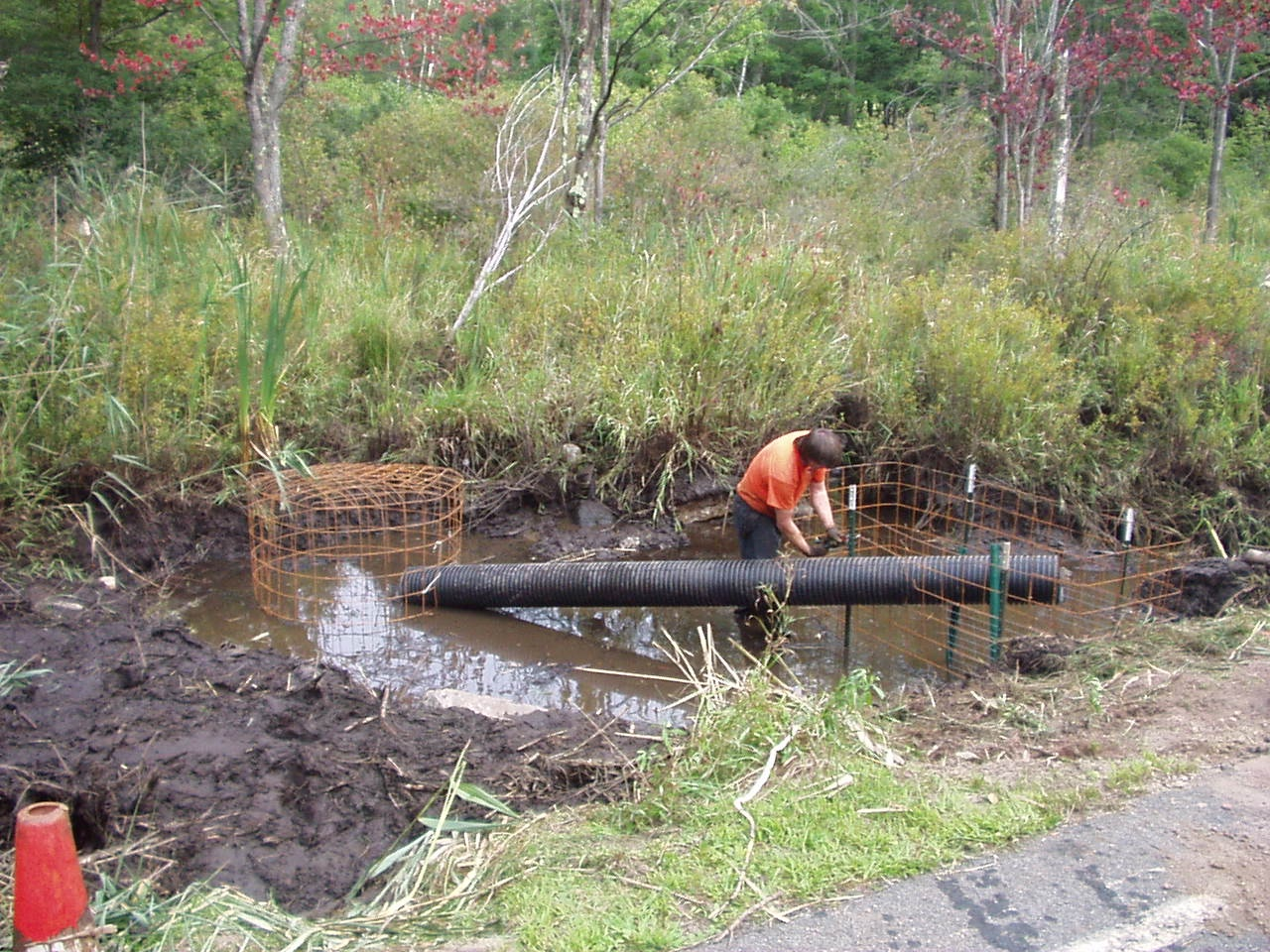 Culver fence and pipe installed with beaver pond drained